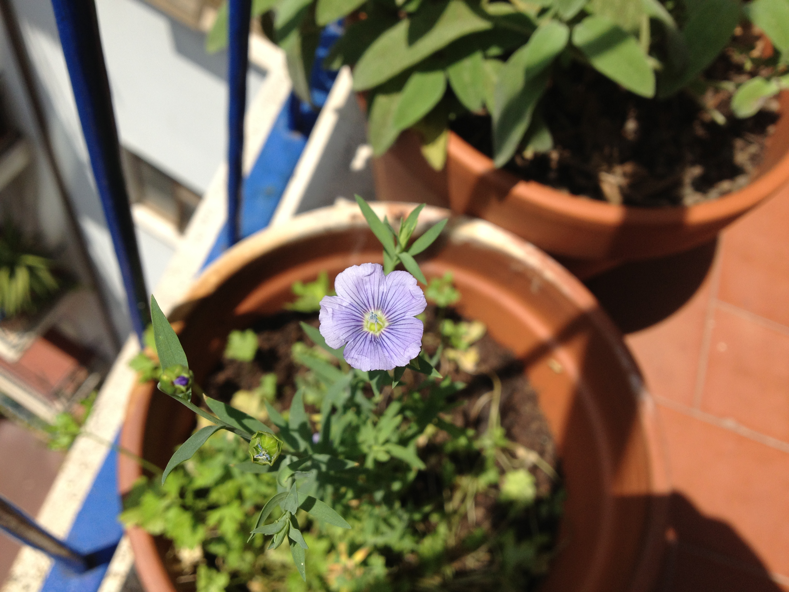 Flax flower (Linum usitatissimum)